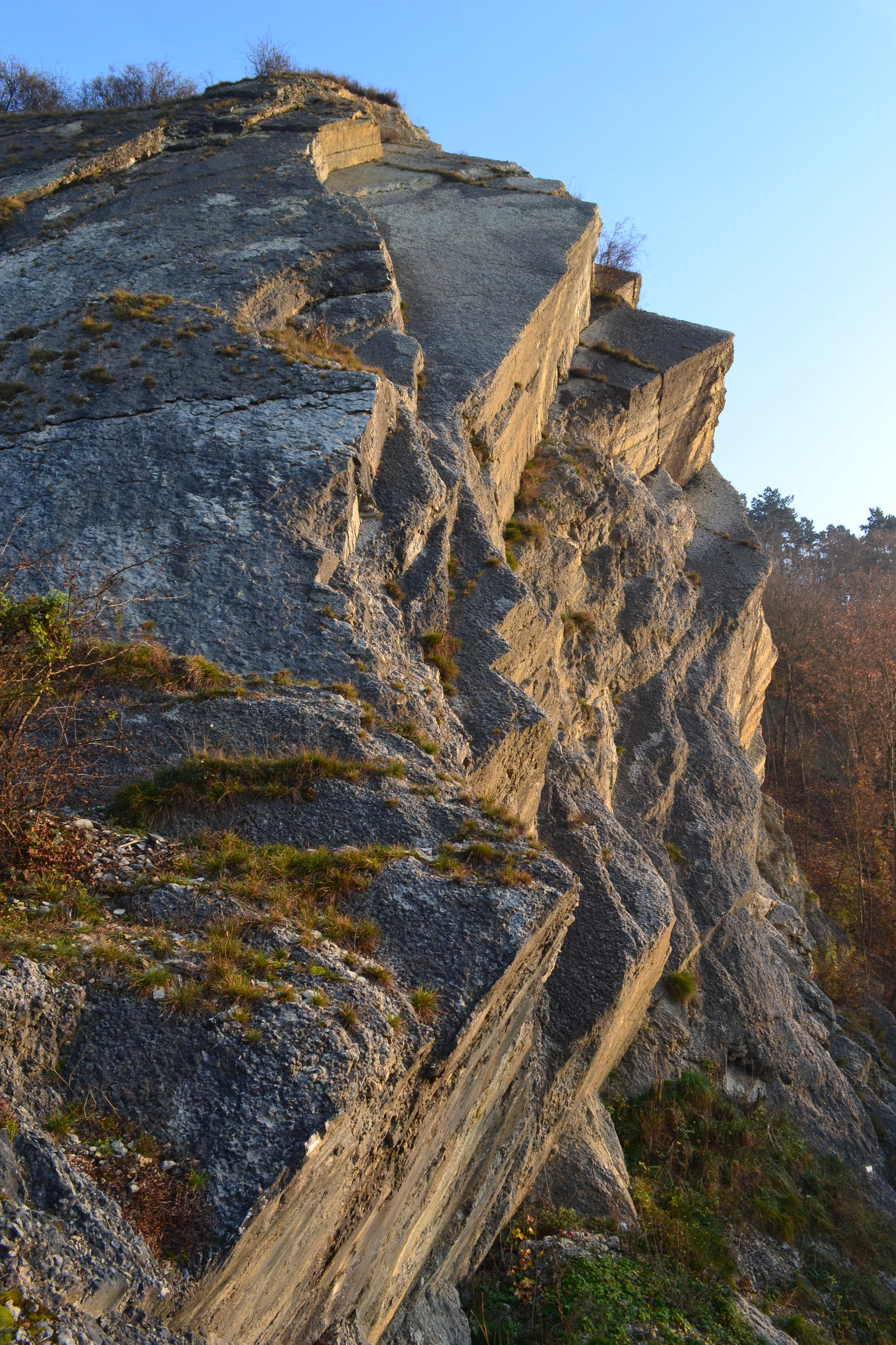 Natural monument Branické skály in Prague, Czech Republic. Dvorce-Prokop limestone (Prague Formation) of the Prague Basin.